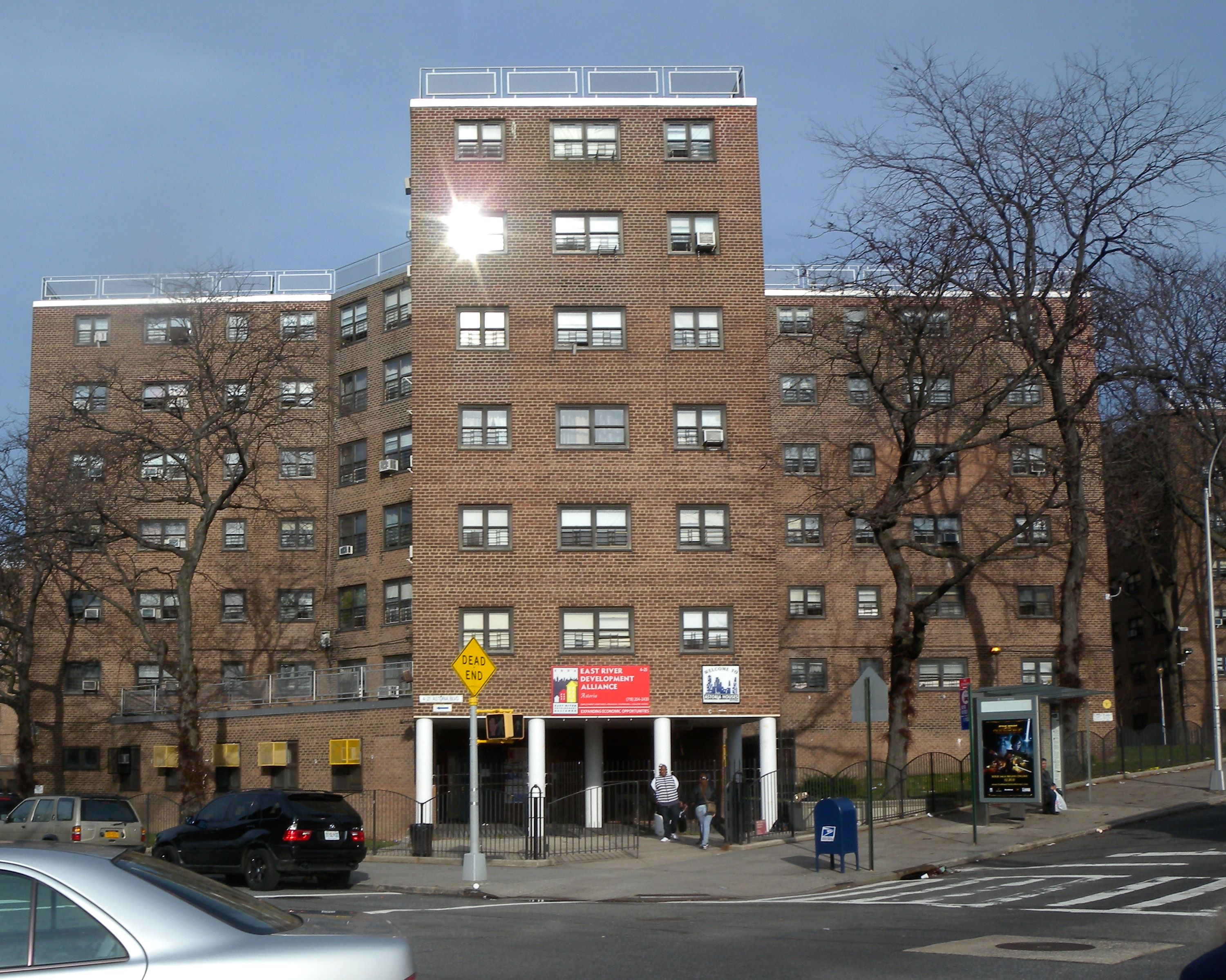 Looking northwest across Astoria Boulevard at Astoria Houses on a sunny late morning.